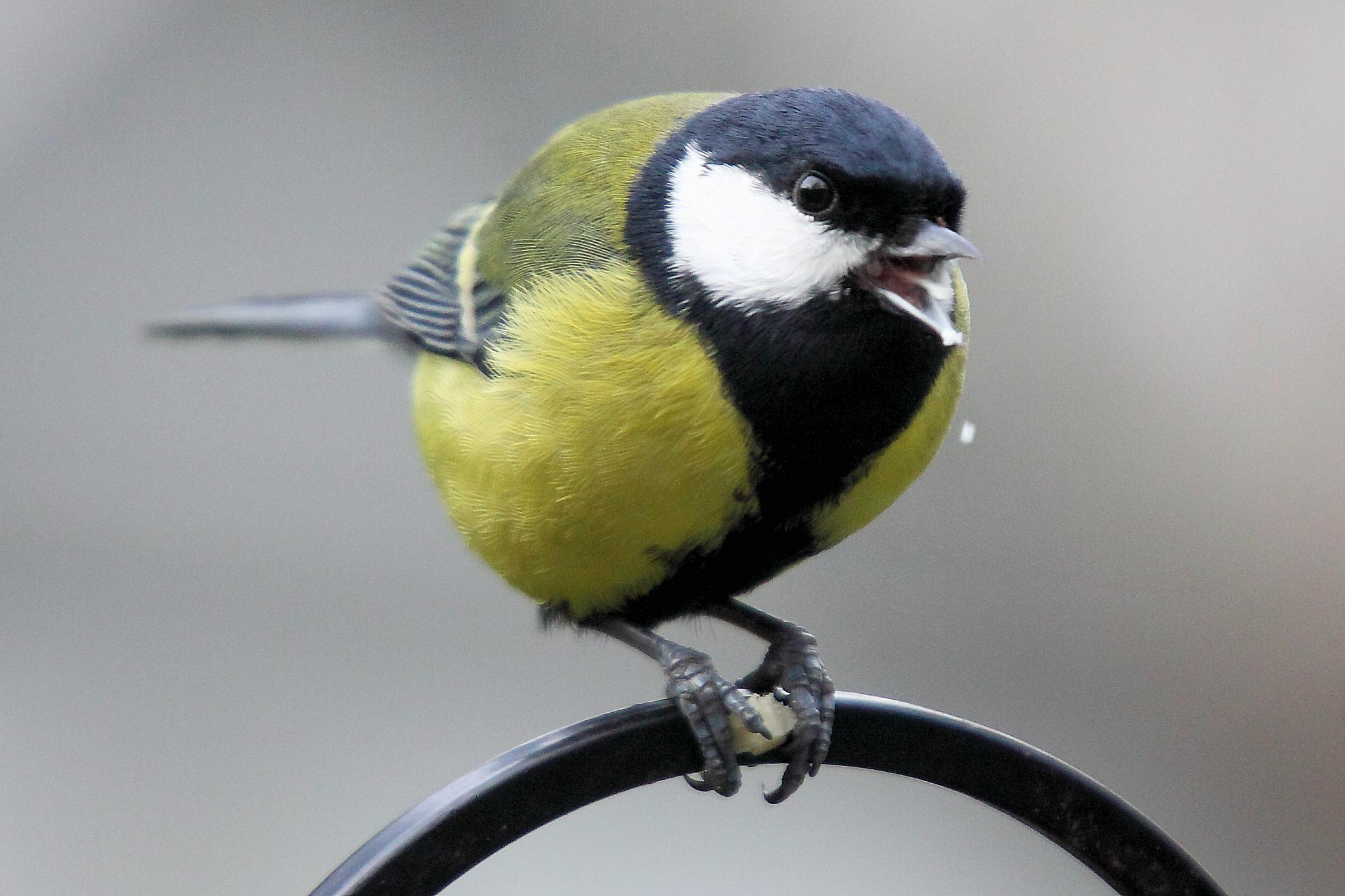 Great Tit - January 2011